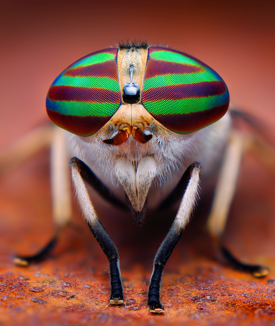 compound eye